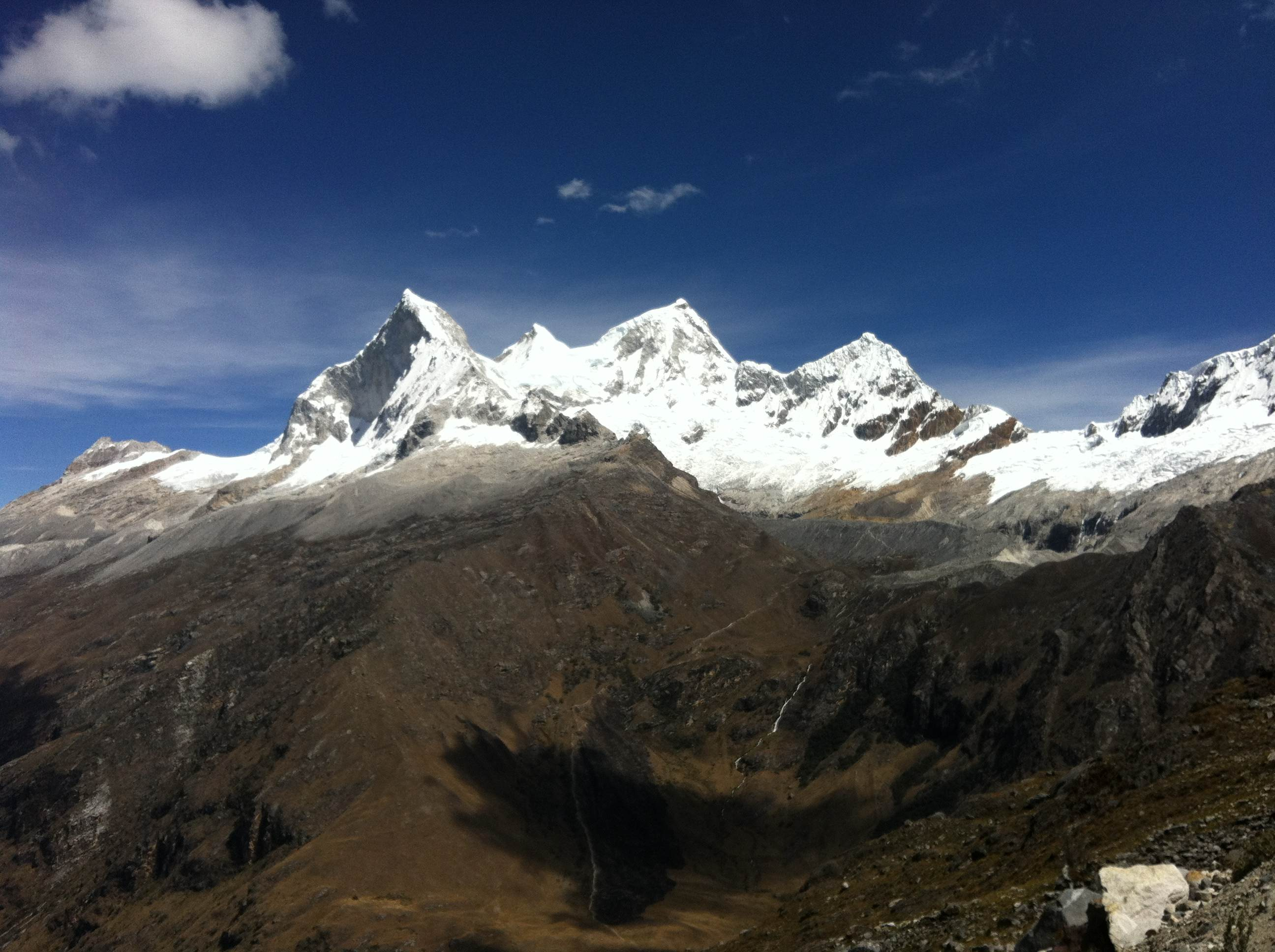 Three summits of Huandoy # Peru